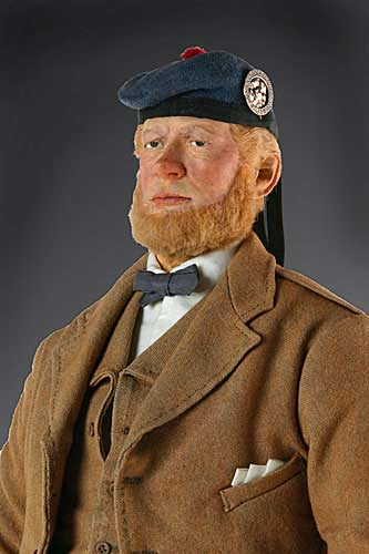 Historical figure of Queen Victoria's groom, John Brown